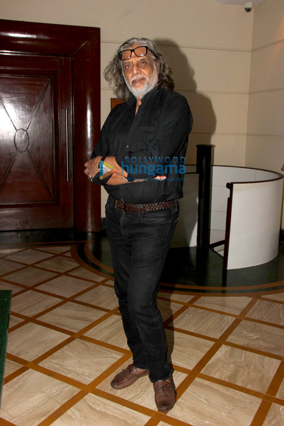 Muzaffar at media meet of ‘Jaanisaar’